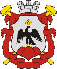 Unofficial coat of arms of Orsk